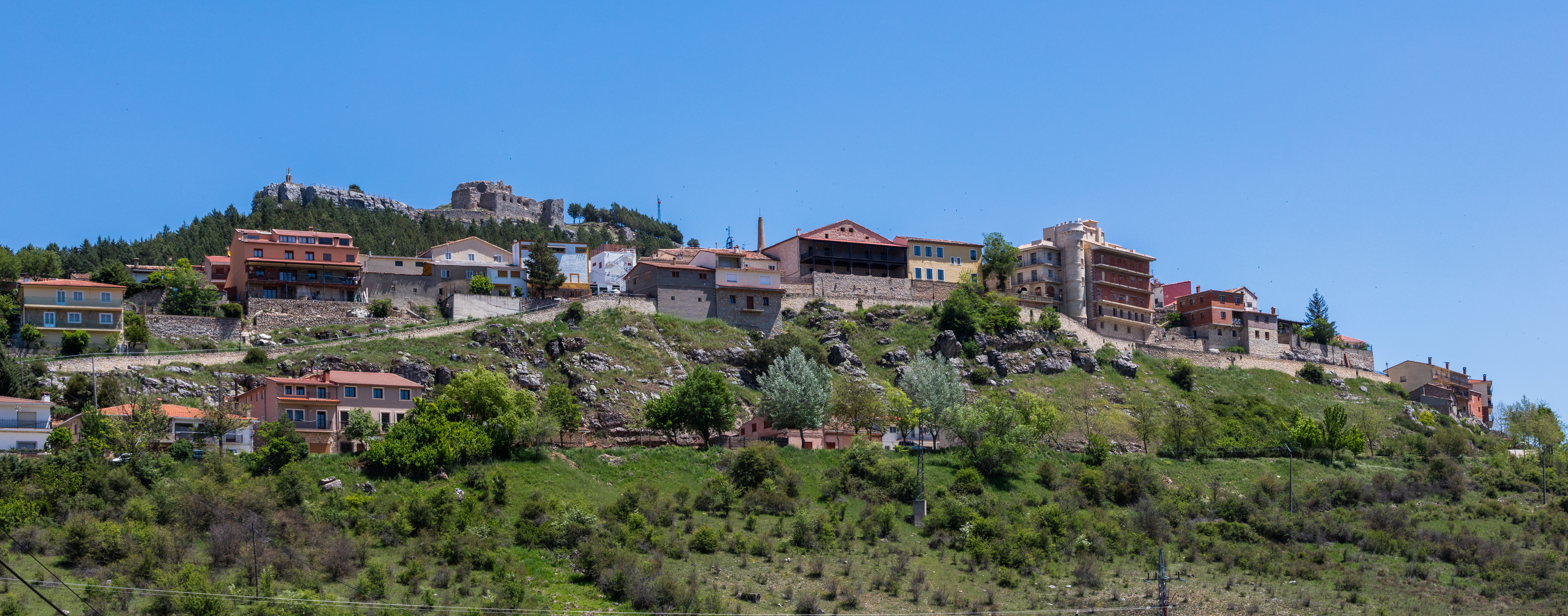 Beteta, Cuenca, Spain